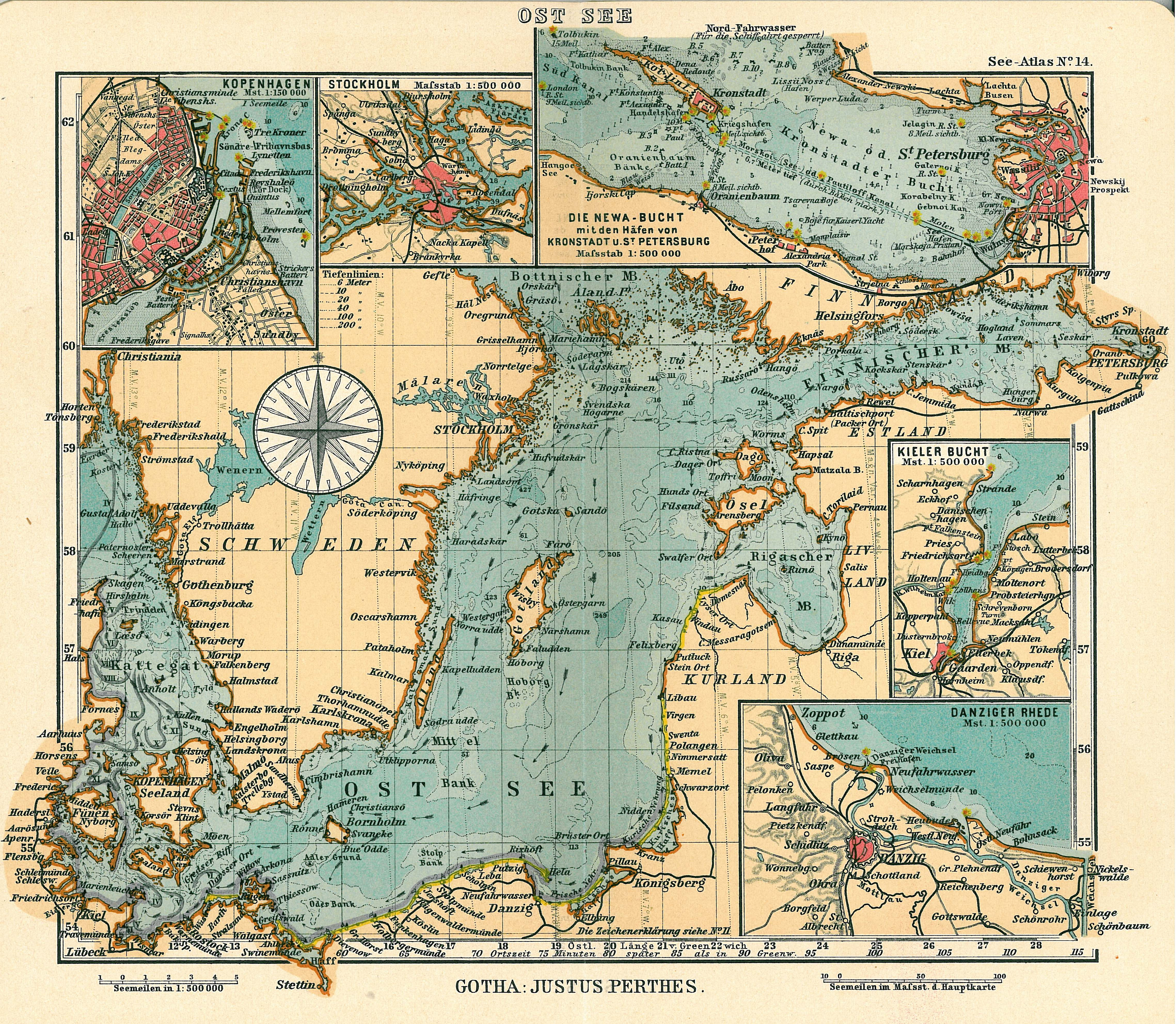 Page 14, Baltic sea with insets of Copenhagen, Stockholm, St.Petersburg, Kiel and Danzig (Gdansk)